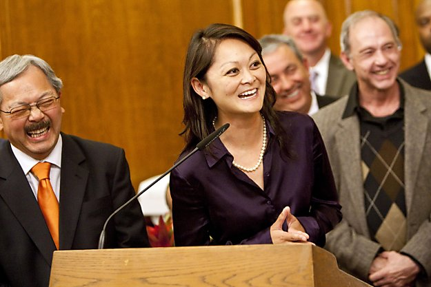 Supervisor